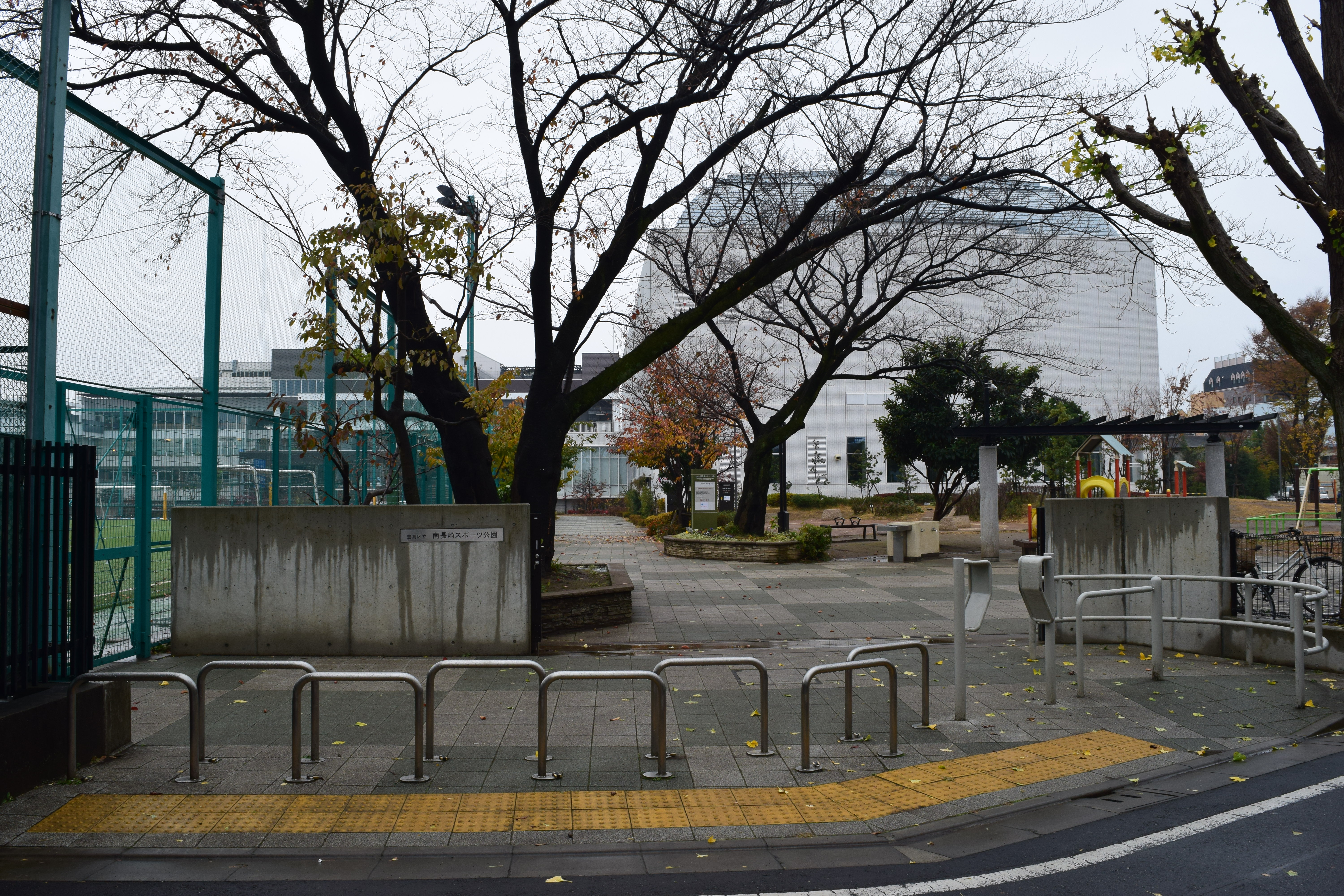 Minami-Nagasaki Sports Park (eastern entrance) in Toshima-ku, Tokyo, Japan on 1 December 2016.